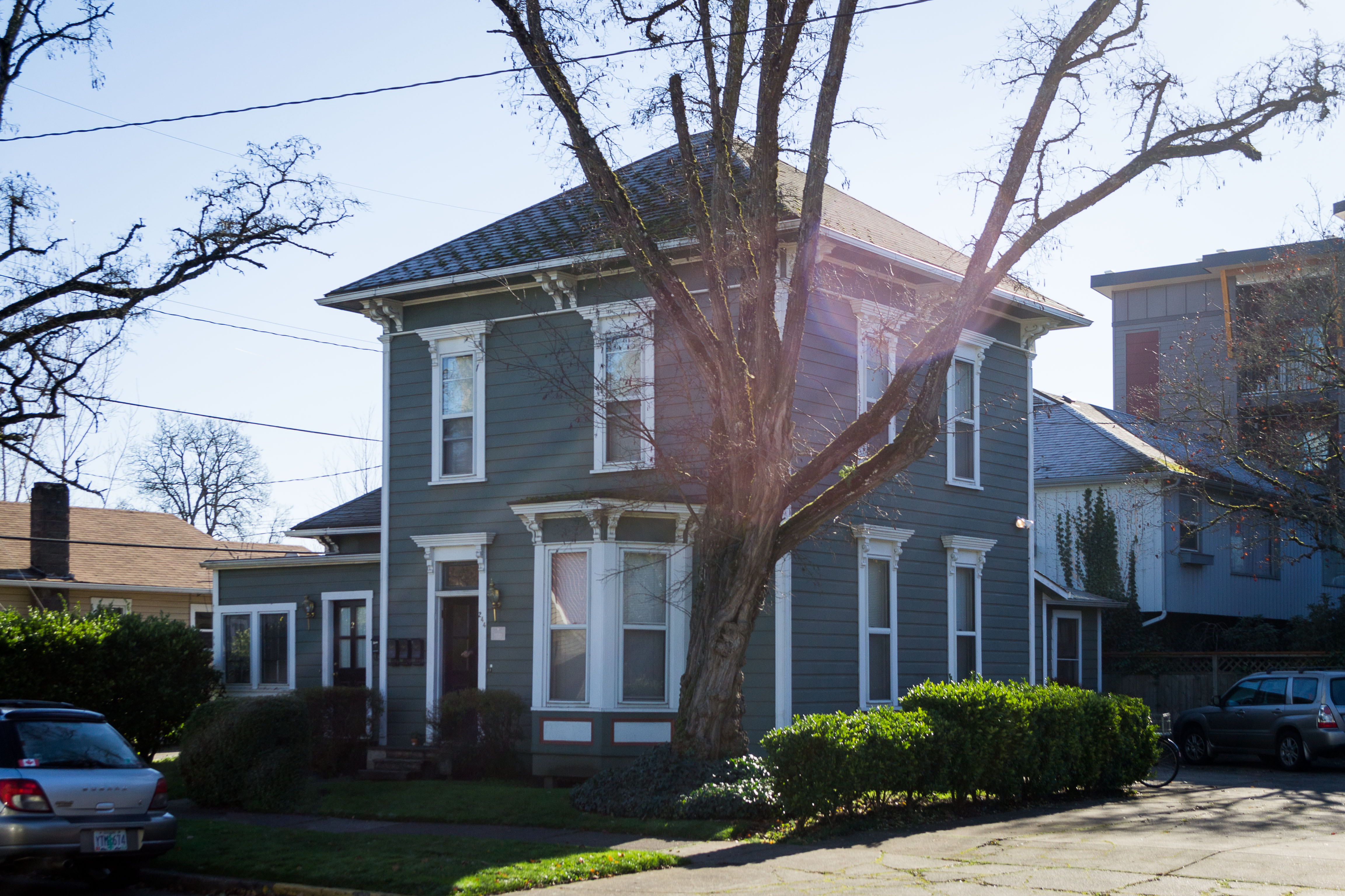 The Christian-Patterson Rental Property in Eugene, Oregon, listed on the NRHP